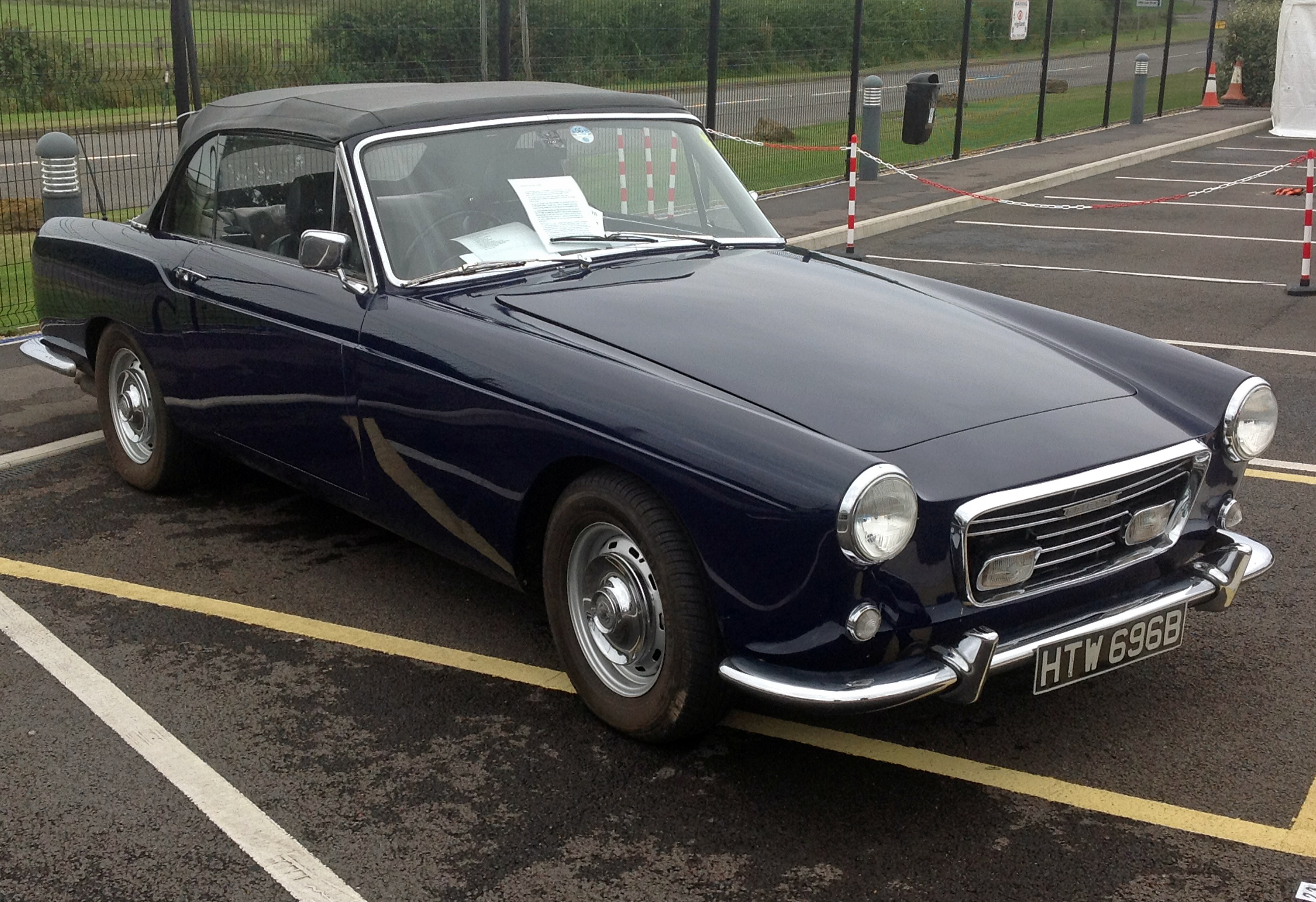 1963 Viotti-bodied Bristol 407, once owned by Peter Sellers. Upgraded to 410 specification. Rare Breeds, Haynes Motor Museum, Sparkford, Somerset.